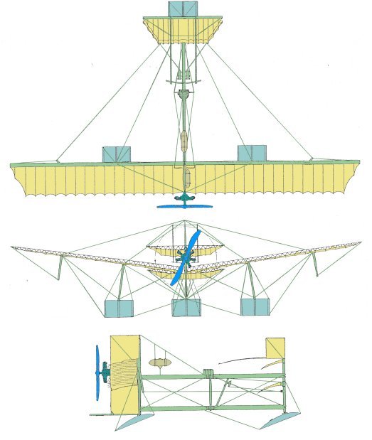 3 views - canard fabre